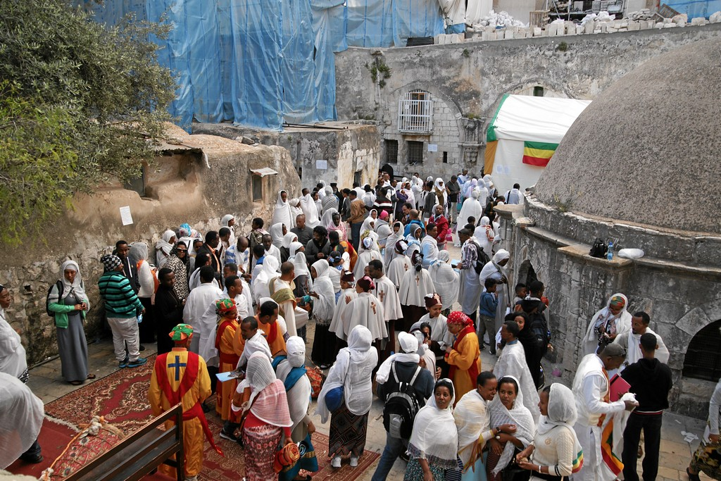 Coptic / ethiopian Holy Saturday feast on the roof of the Church of the Sepulchre next to the koptic Deir Es-Sultan monastery.